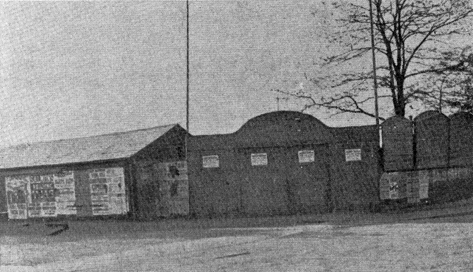 The entrance to the Antelope Ground sports ground, which was demolished in 1896